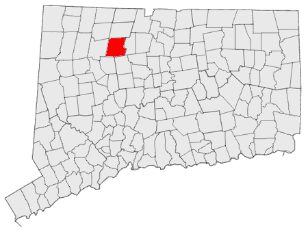 Locator map for New Hartford, Connecticut